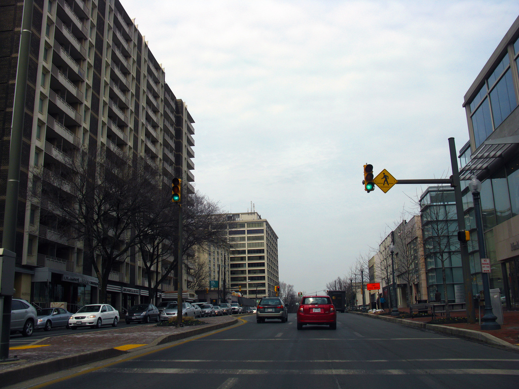 Facing northbound on MD 355 Wisconsin Ave in Friendship Village, MD.